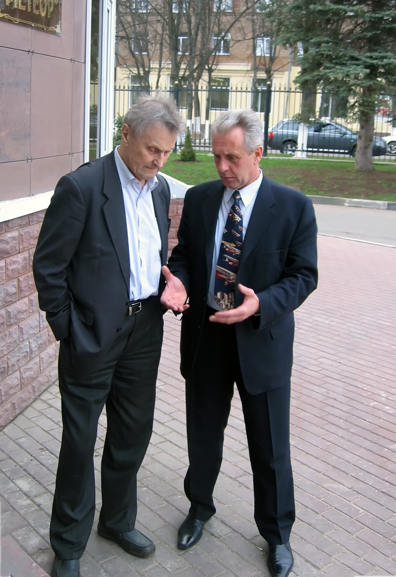 Informal talk of A. D. Mironov and A. I. Kostyuk, Merited test pilot of the Russian Federation